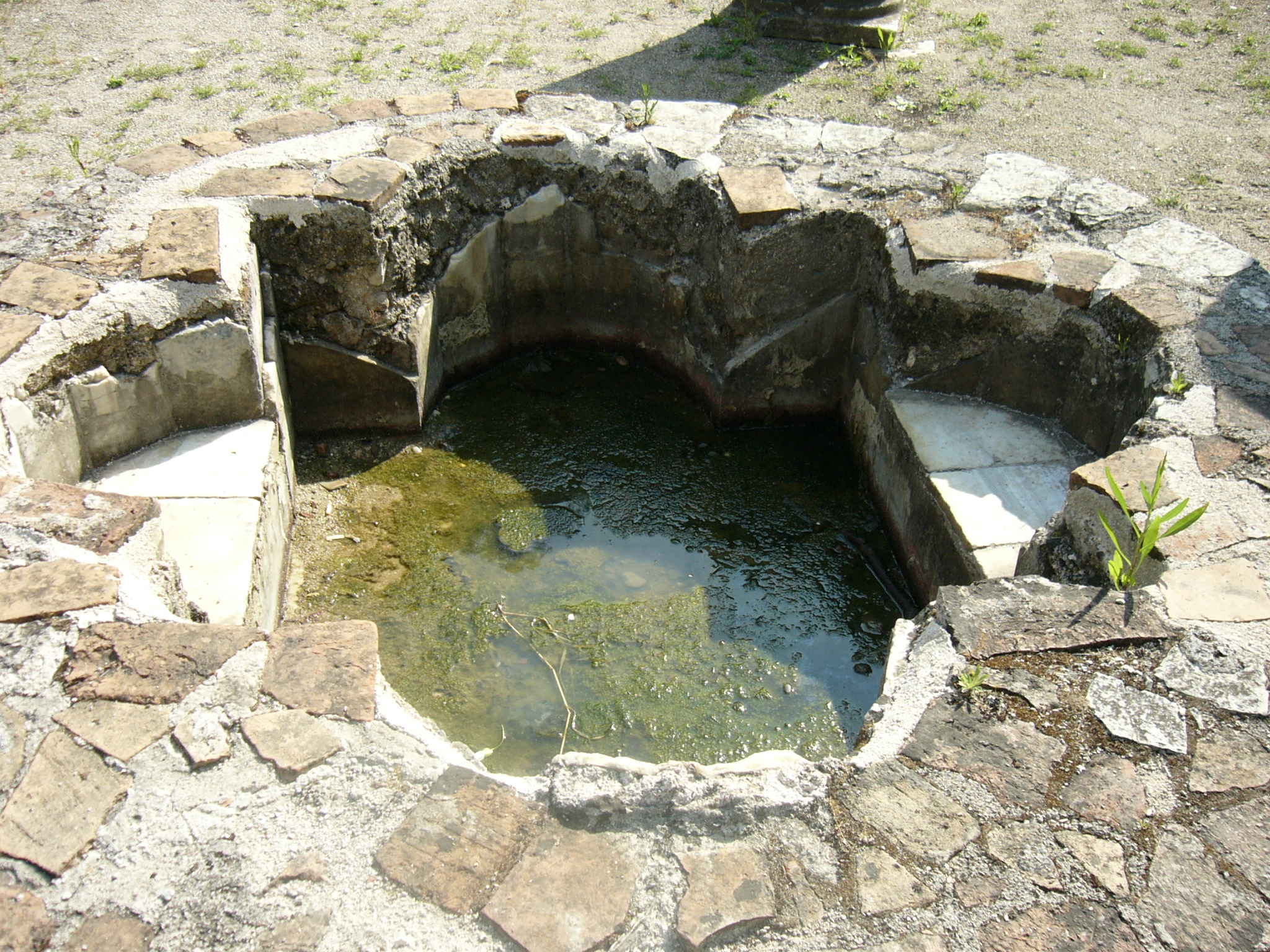 Butrint, Albania: baptistery, baptismal font